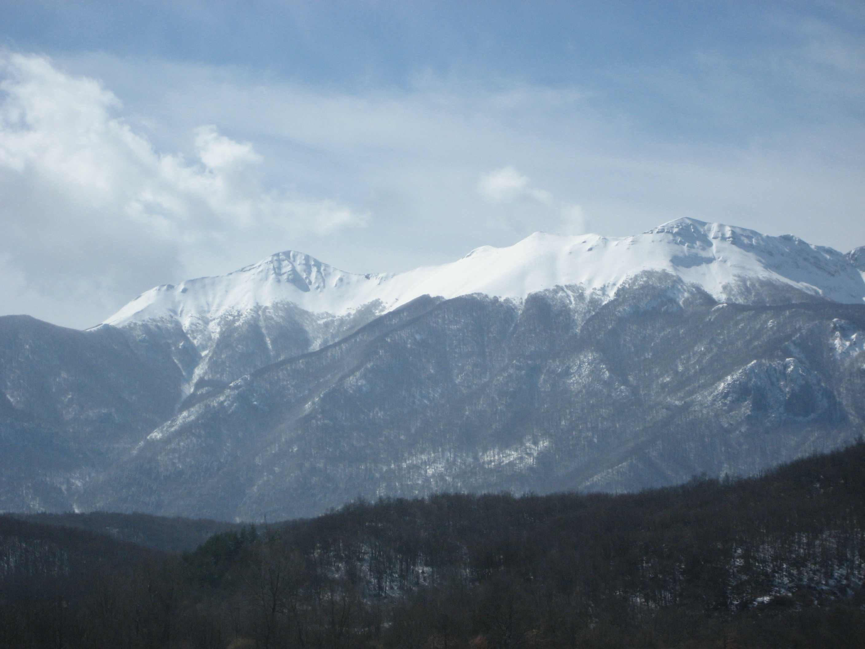 Highest Point of the Velebit mountain in Croatia:Sveti Rok